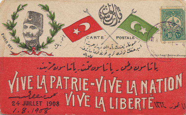 Postcard commemorating the Young Turk Revolution of 24 July 1908, with the slogan "Long live the fatherland, long live the nation, long live liberty" in Ottoman Turkish and French, and a picture of Enver Pasha. In modern Turkish: "Yaşasın Vatan - Yaşasın Millet - Yaşasın Hürriyet!"